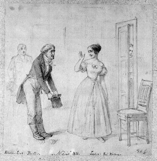 Johanne Luise Heiberg as Sophie and Ludvig Phister as Klokker Linck in Johan Ludvig Heiberg's Nei at Komediehuset/Det Kongelige Teater 1836. Pencil drawing by Edvard Lehmann. | Læs mindre